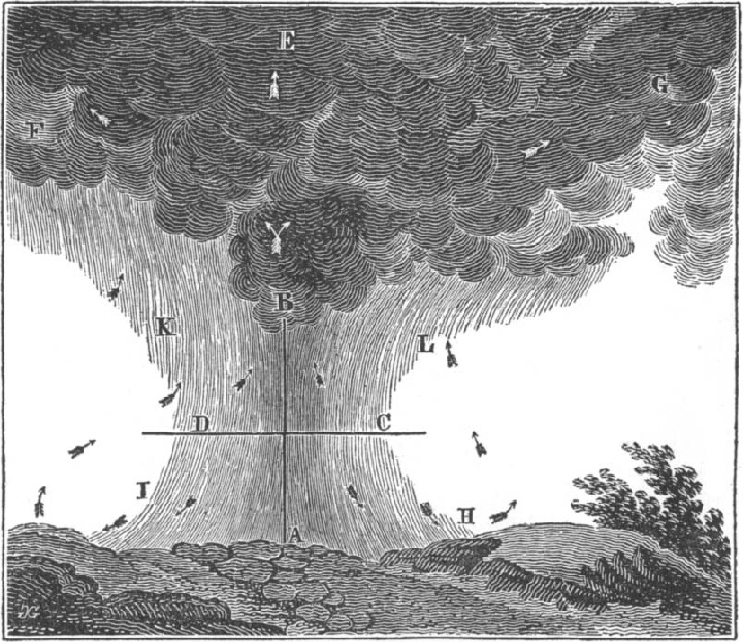 The wood-cut is intended to represent only those storms of moderate size in which the cloud is of sufficient height to let the air below become so cooled as to produce an outward motion at the surface of the earth.